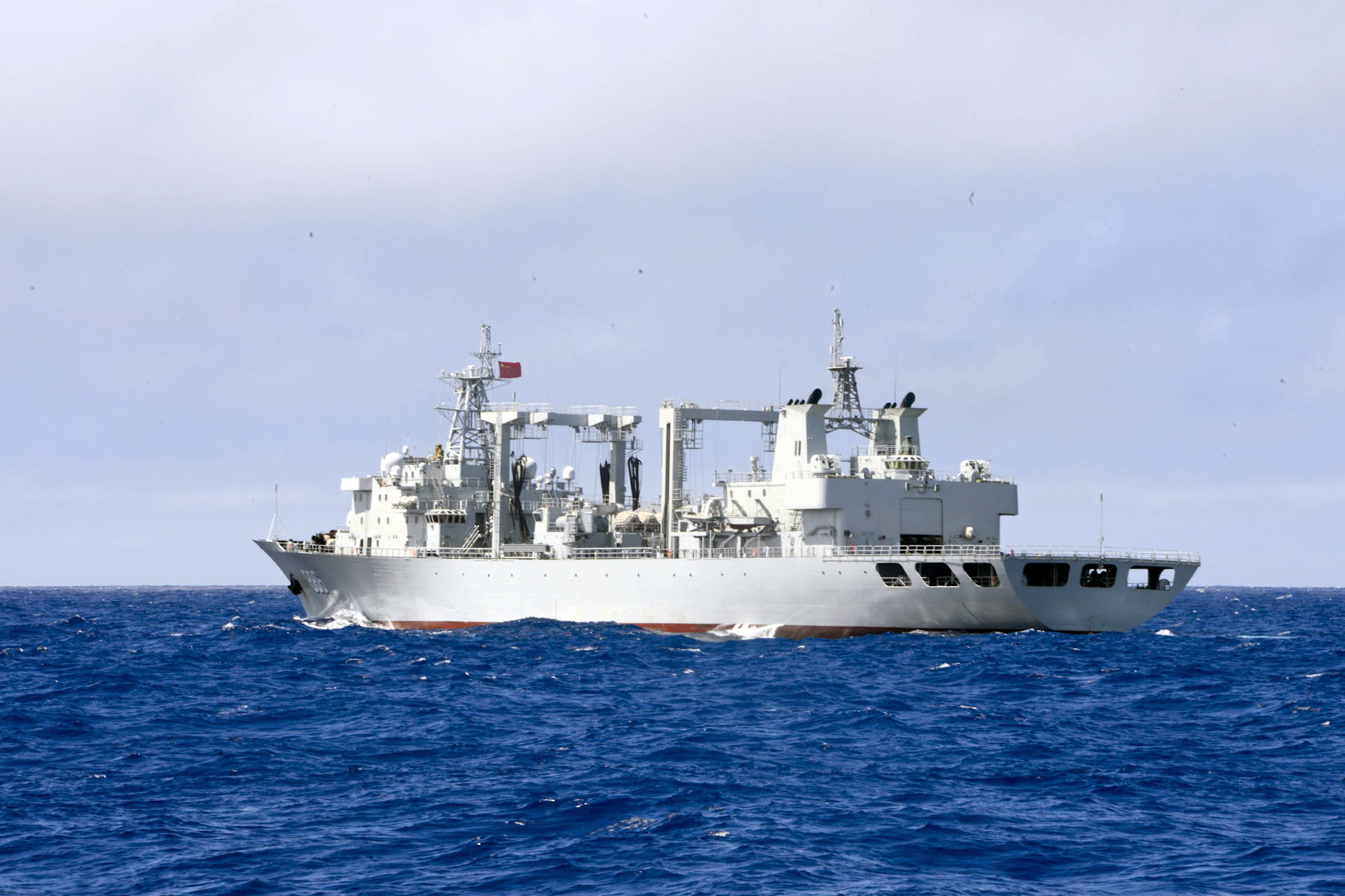 The People's Liberation Army (Navy) PLA(N) ship Qiandaohu (AO 886) underway off the coast of Hawaii takes part in a maritime interdiction operations exercise (MIOEX) as part of Rim of the Pacific (RIMPAC) Exercise 2014.